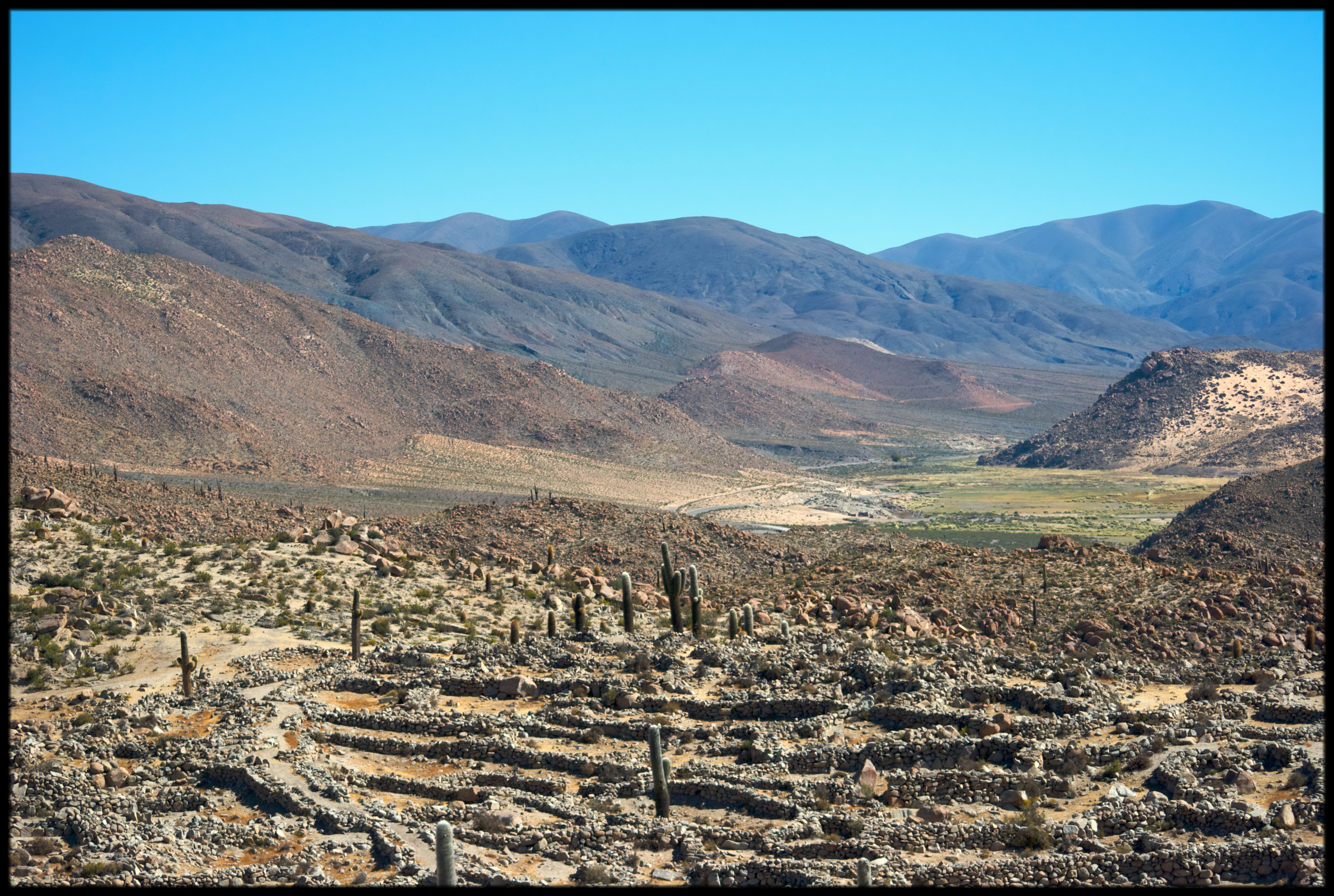 The Tastil ruins are pre-incan and was believed to be populated between 1360 and 1440 and about 2000 people lived there.